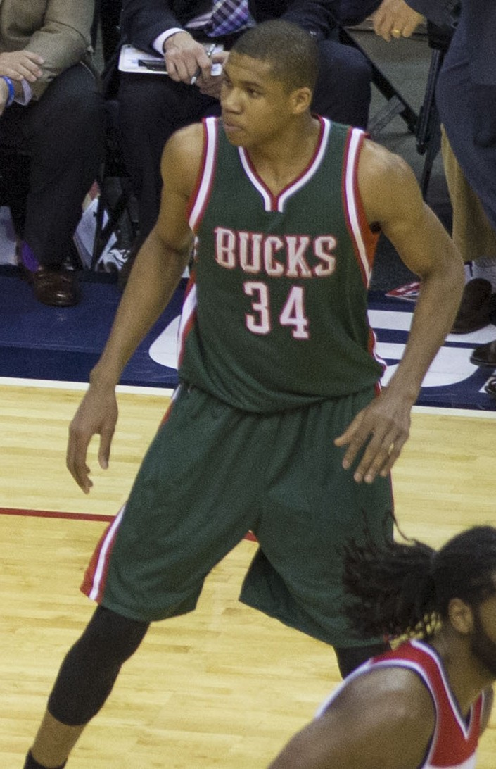 Bucks at Wizards 11/01/14